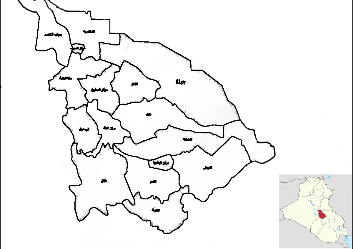 Babil Map in Iraq